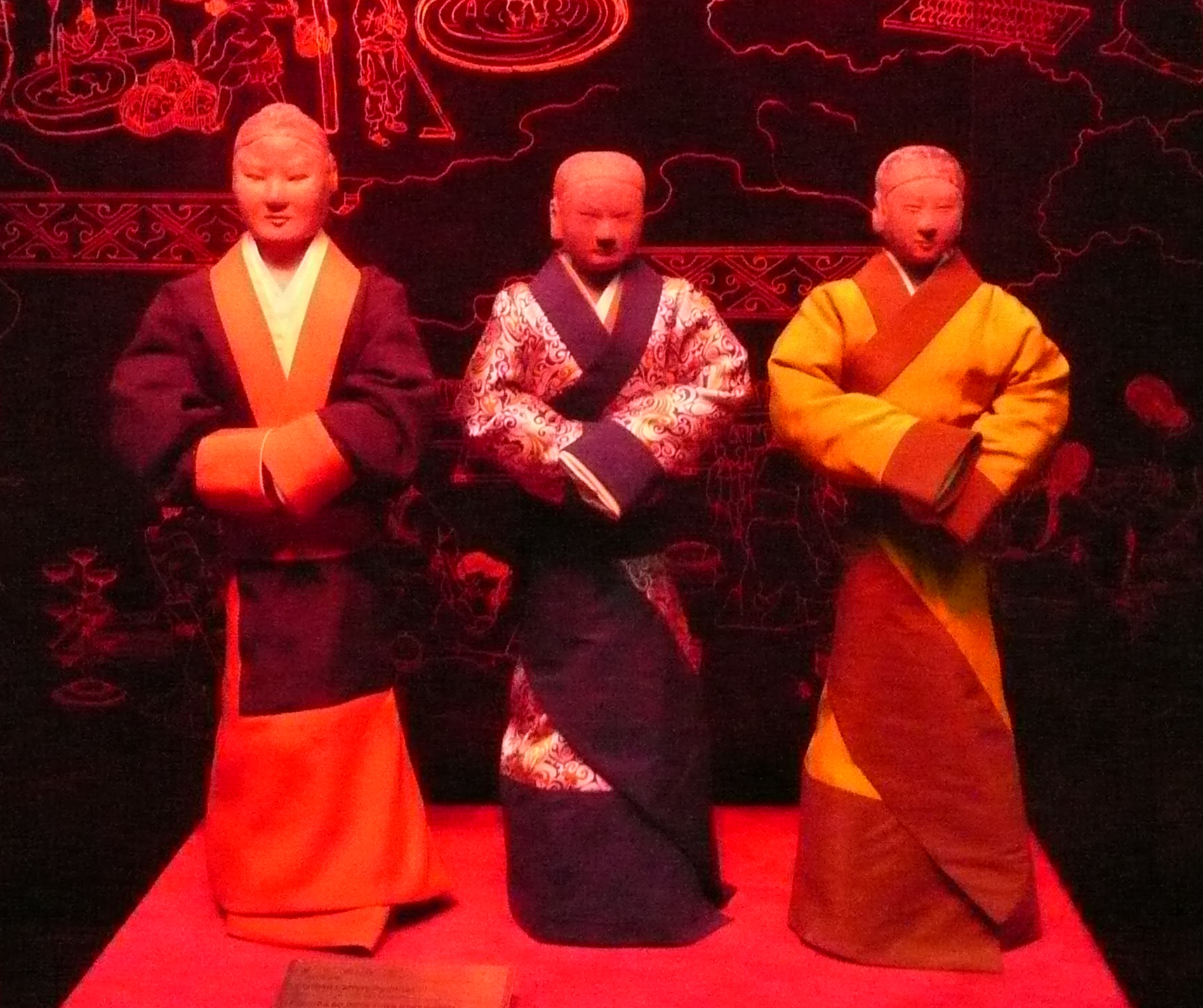 Han Yang Ling - Mausoleum of Jingdi, Han Emperor, Xianyang, near Xi'an